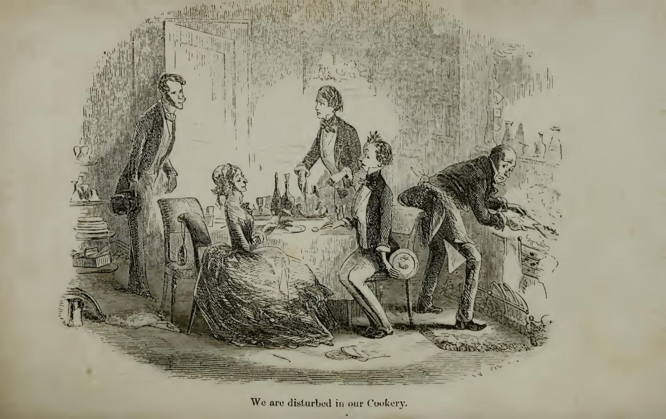 David Copperfield, We are disturbed in our cookery by Phiz